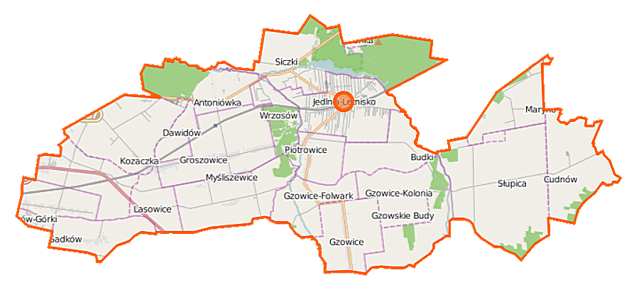 Map of Gmina Jedlnia-Letnisko, Poland This map of Jedlnia-Letnisko (gmina) was created from OpenStreetMap project data, collected by the community. This map may be incomplete, and may contain errors. Don't rely solely on it for navigation. Border coordinates51.455321.1950←↕→21.440551.3844